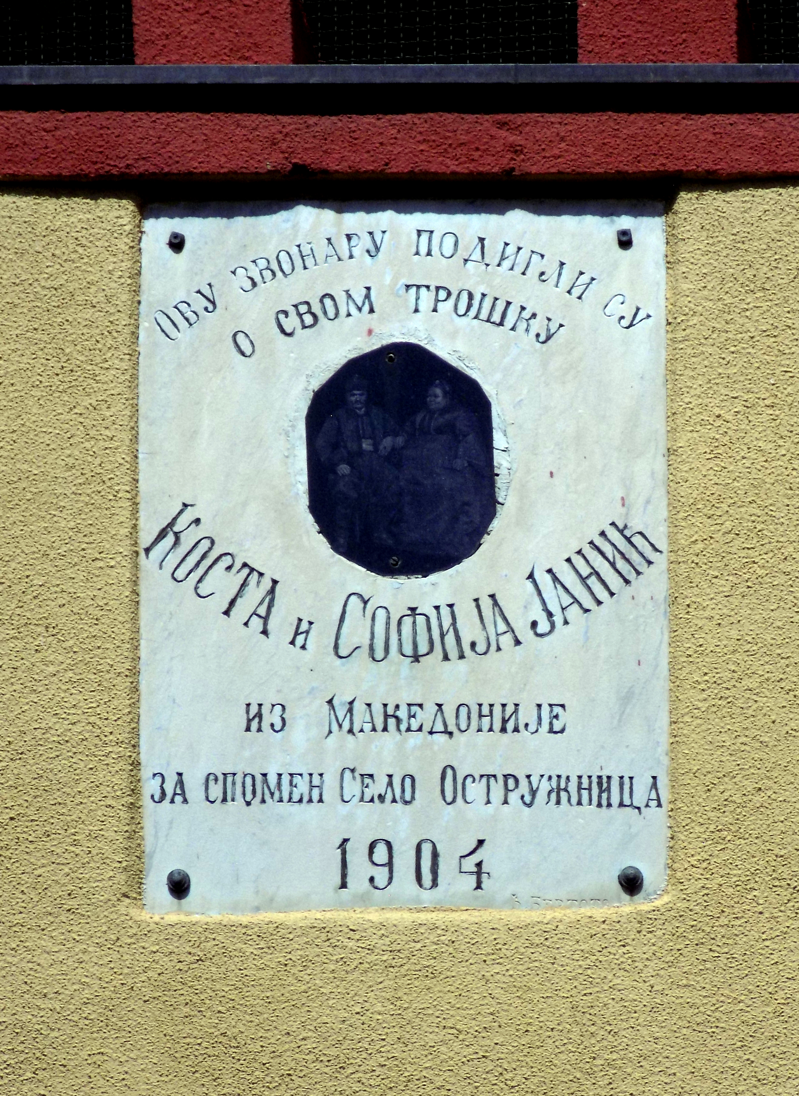 Saint Nicholas church in Ostružnica, suburban settlement of Čukarica, a municipality of the city of Belgrade, Serbia - Picture and dedication of the couple Janić, donor of the belfry